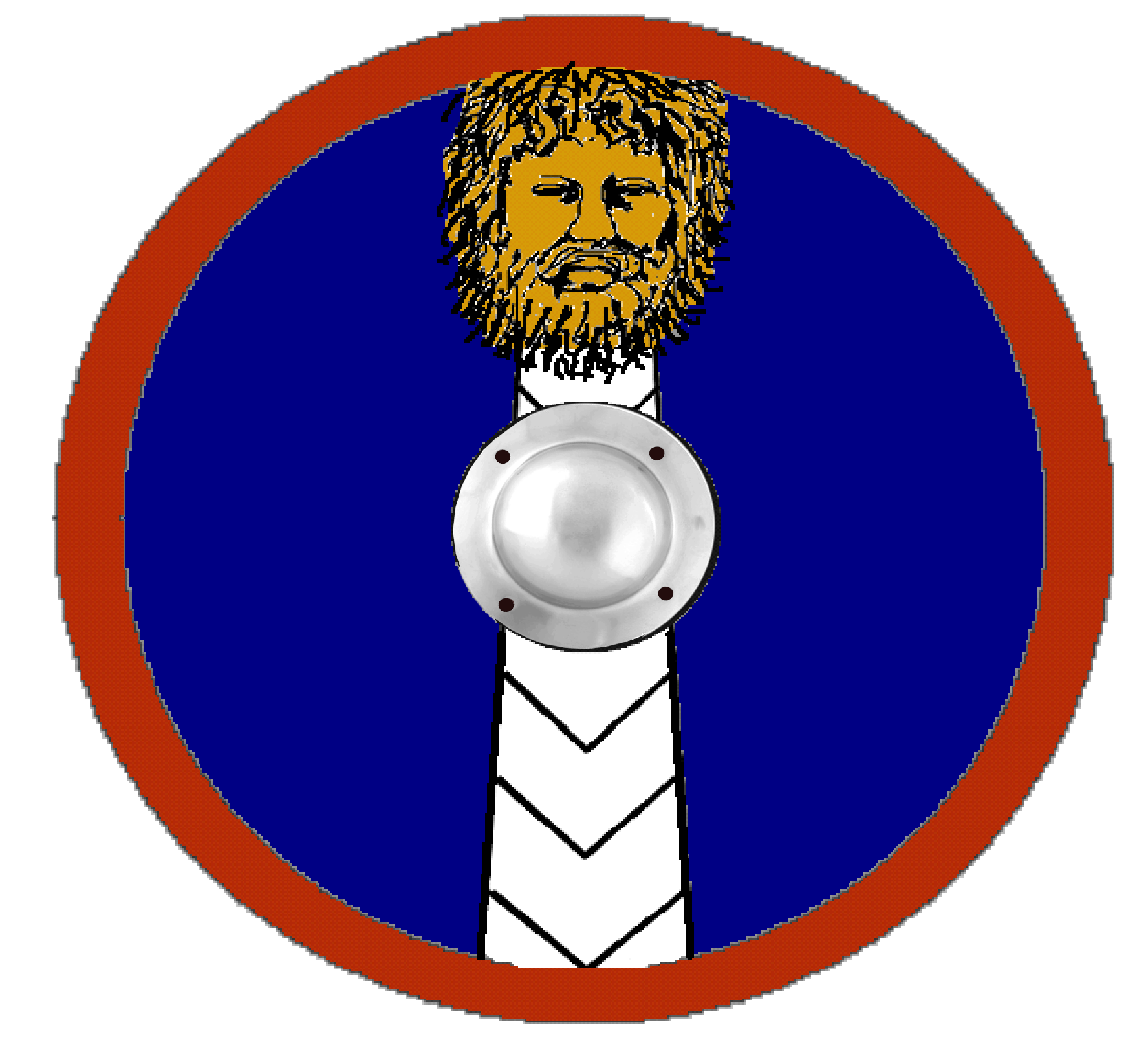 Shield pattern o.t. Felices iuniores is listed as one of auxilia palatina units in the Magister Peditum's infantry roster; it assigned to his Italian command.